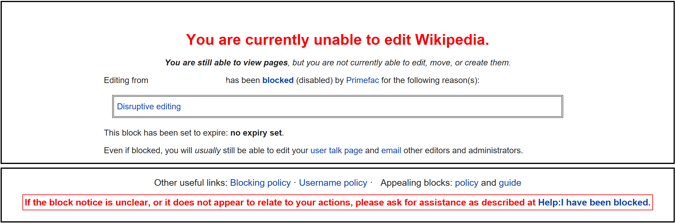 The block notice of the English Wikipedia. Screenshot from a block